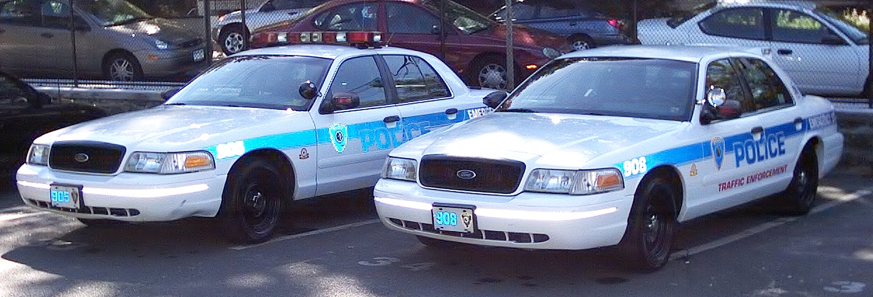 Both cars are late model Ford Crown Victoria Police Interceptors. Car 908, on the right, is a Slick-Top, not being fitted with the roof-mounted light bar seen on the car on the left (car 905). Photo Taken by me in the fall of 2006